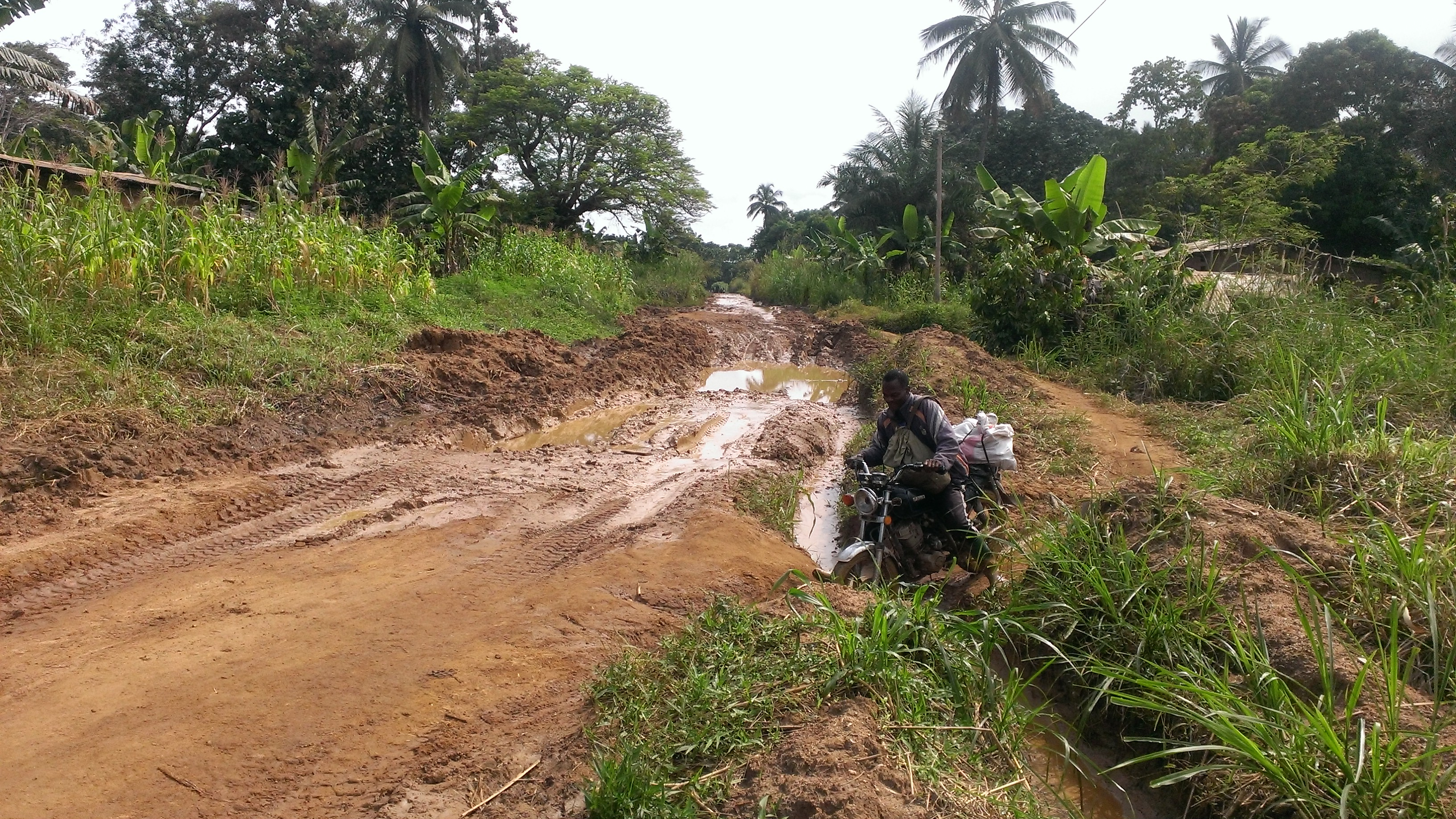 This is an image with the theme "Africa on the Move or Transport" from: Cameroon